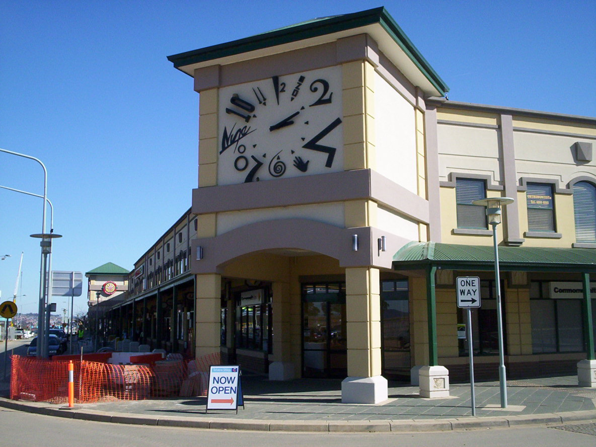 Street Gungahlin marketplace, development continuing on the far left and lower left. in Canberra, Australia. I took the photo Cfitzart 14:27, 26 August 2005 (UTC)